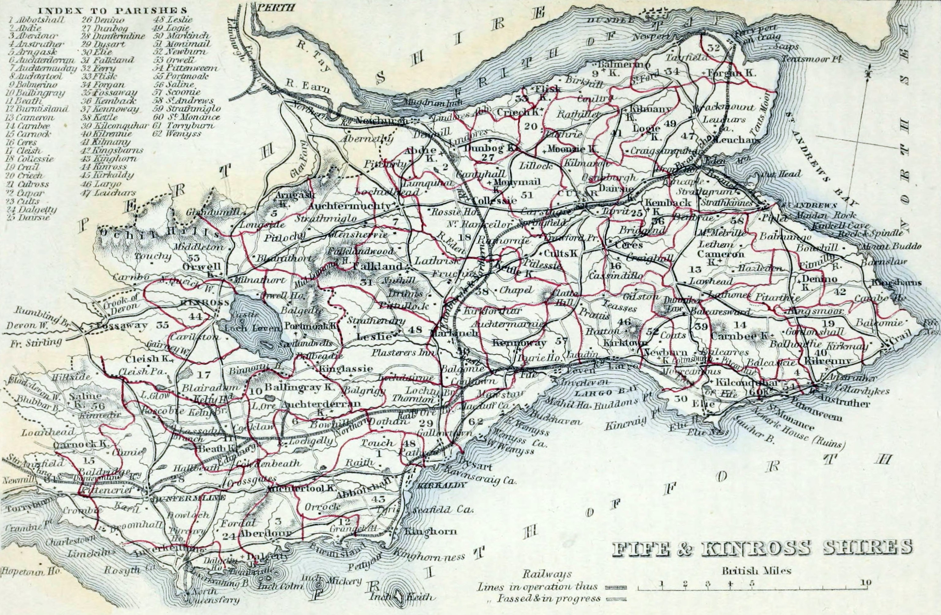 FIFE & KINROSS SHIRES Civil Parish map. The Imperial gazetteer of Scotland. Vol.I. by Rev. John Marius Wilson.